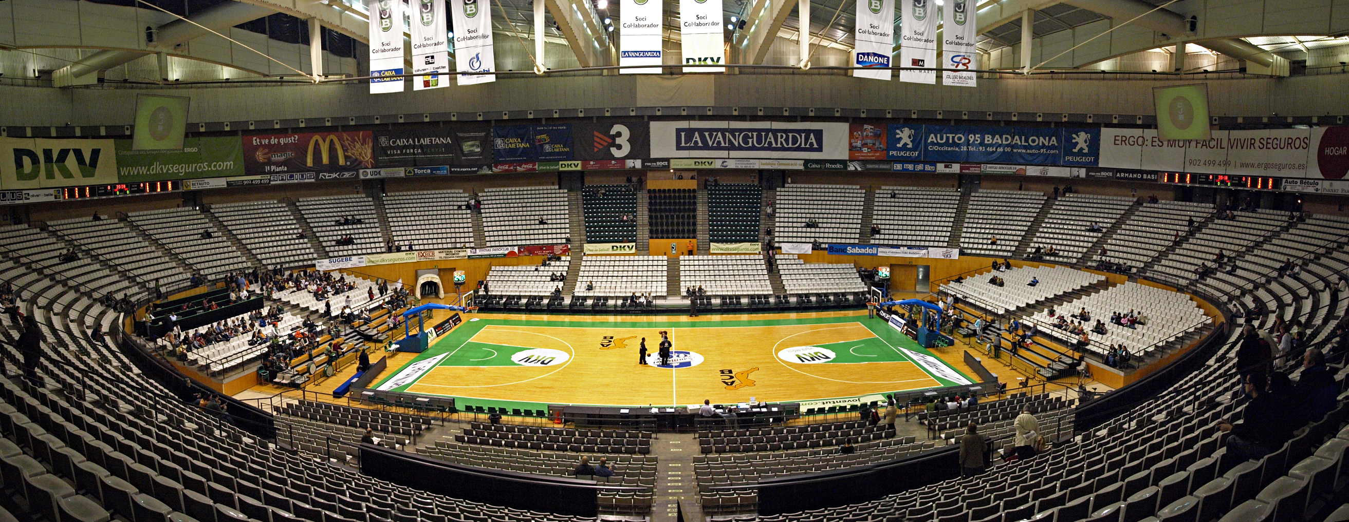 Badalona Olimpic Stadium (Barcelona, Spain)